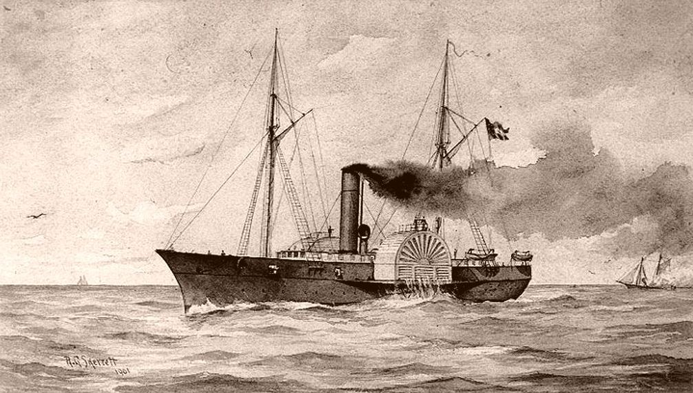 CSS Nashville (1861-1862) Wash drawing by R.G. Skerrett, 1901, depicting her steaming away after burning a captured schooner. Courtesy of the Navy Art Collection, Washington, DC. U.S. Naval Historical Center Photograph.